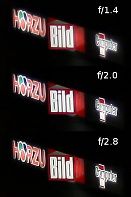 The 100% crops of image centers taken with the Sigma 30mm f/1.4 lens on a Canon EOS 50D using the LiveView autofocus (contrast) at "f/1.4 1/400s", "f/2.0 1/200s", and "f/2.8 1/100s". The ISO sensitivity is set to 100.